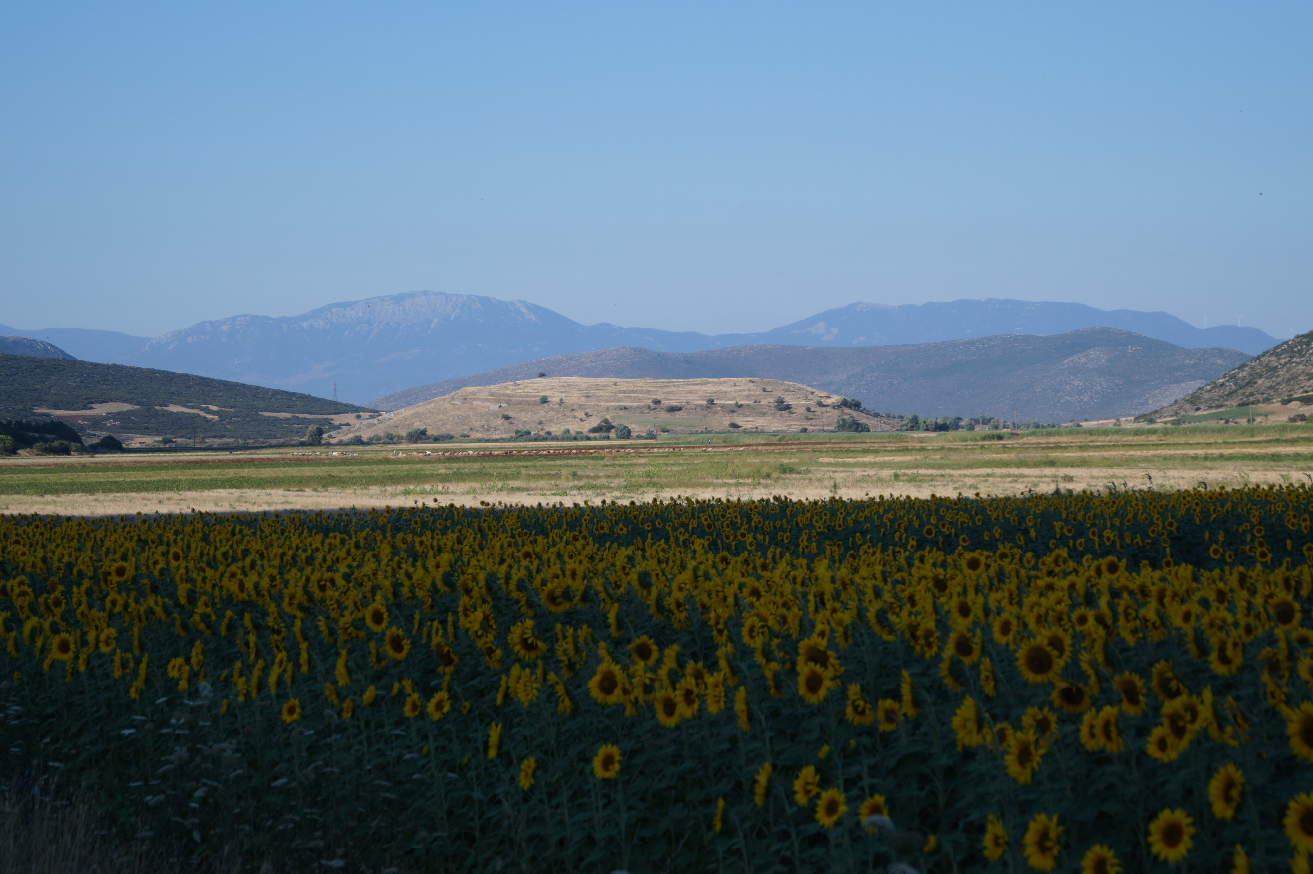 Archaeological site of Hyampolis, Fthiotis, Greece. View from the north-east.